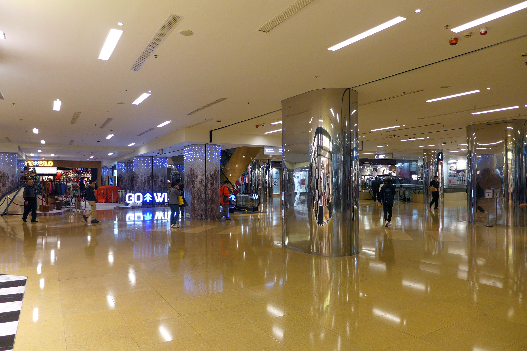 Cityplaza Phase 1 GF View